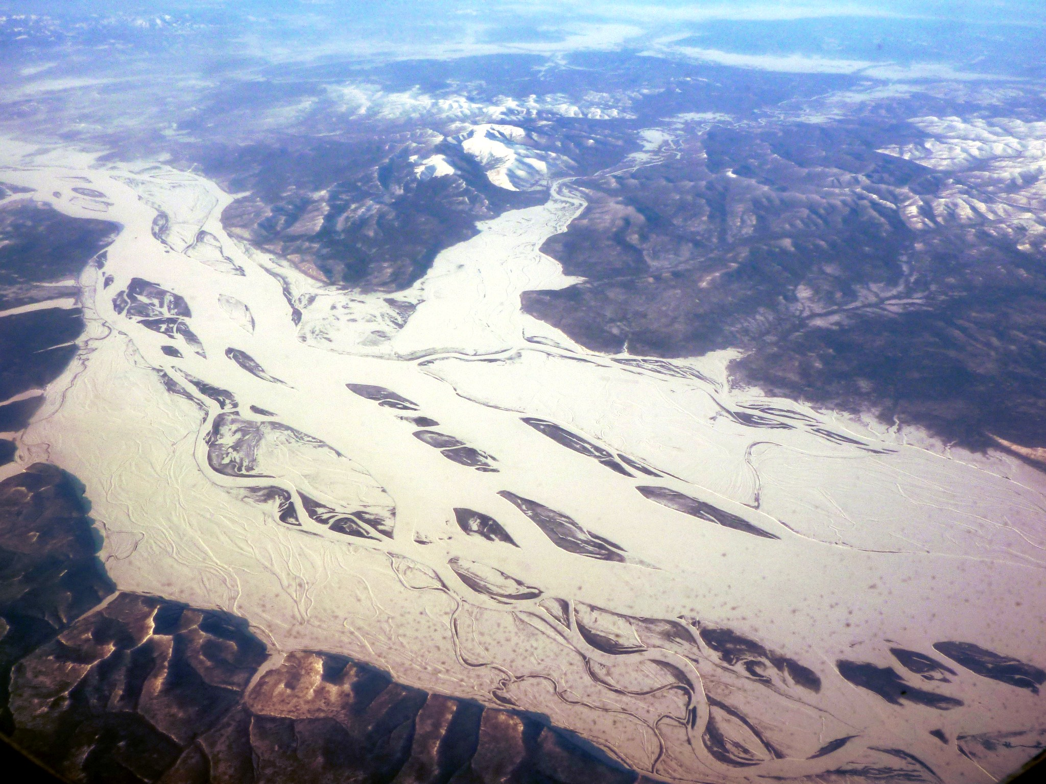 The fall of the Goryun River (right) into the Amur River (left), some 50 km NNE from Komsomolsk. Looking roughly west (upstream). Photo taken from an AA aircraft on a non-stop ORD-PVG flight